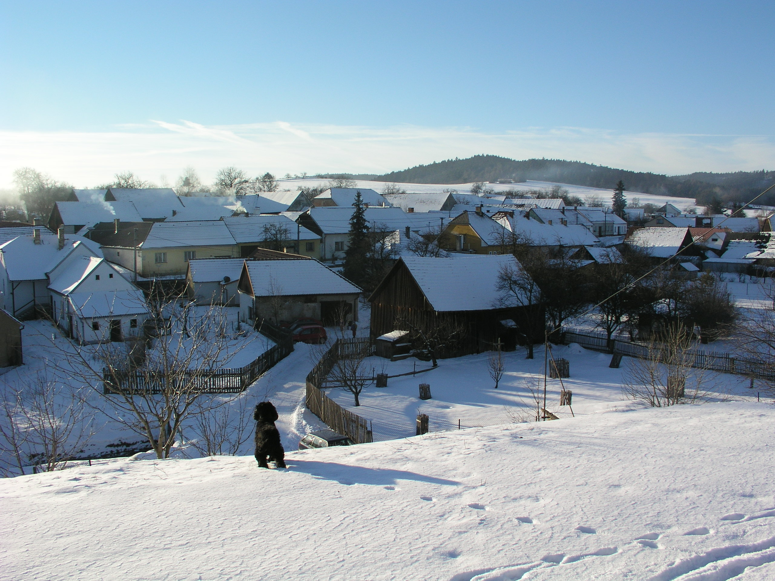 Winter in Horní Slatina